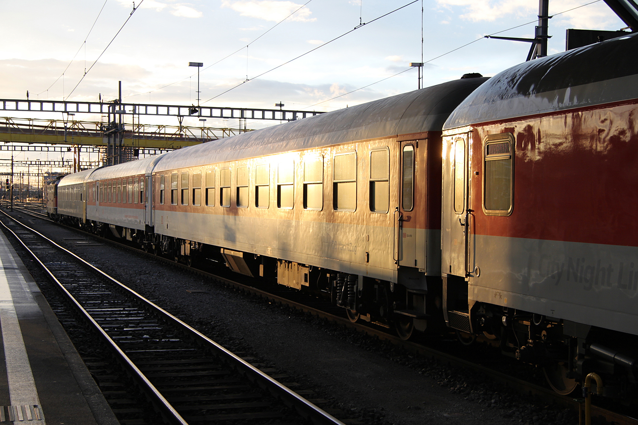 CityNightLine "Canopus" to Praha hl.n. at Zürich HB train station.